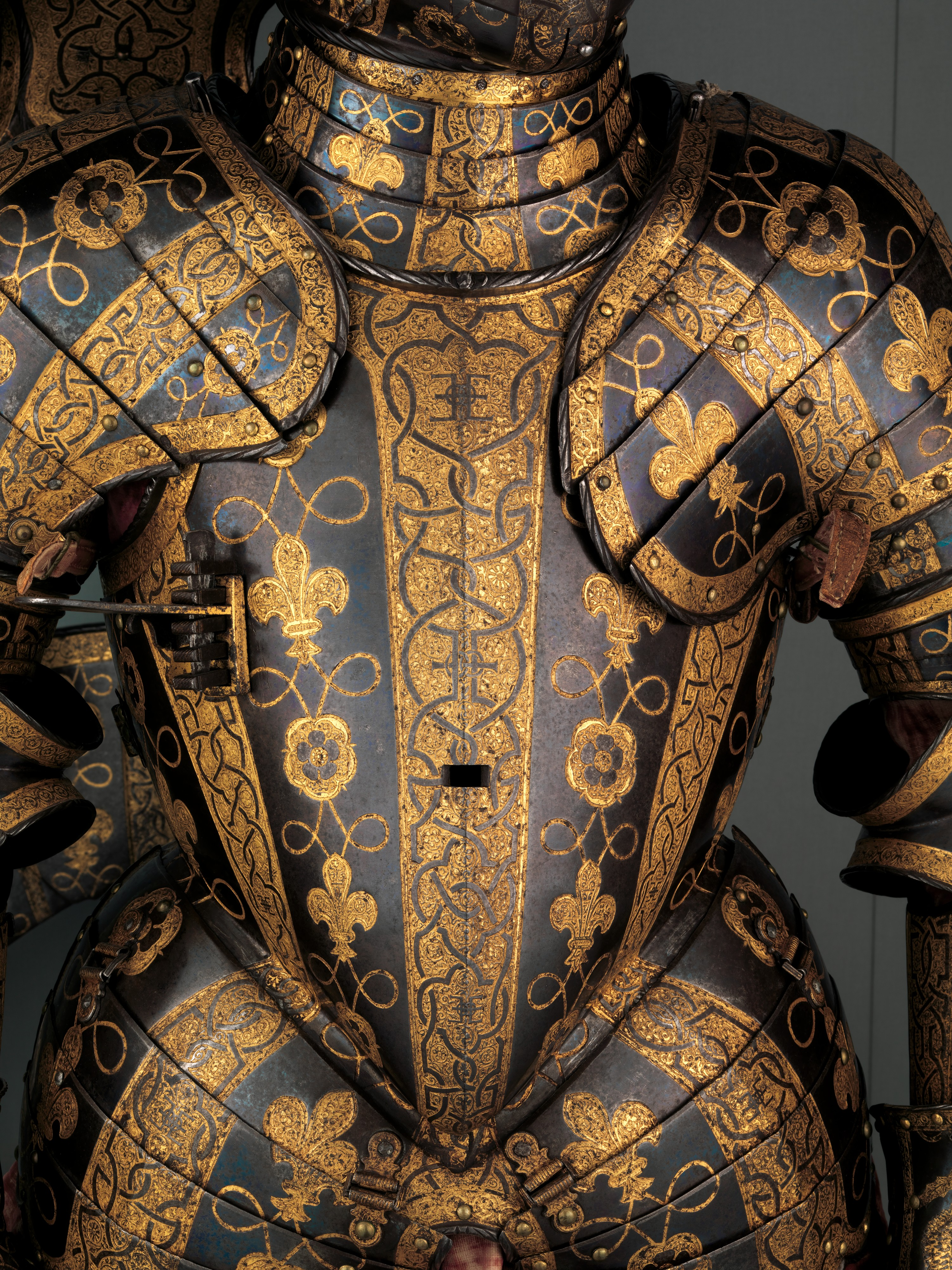 Armor garniture; British, Greenwich; Armor for Man